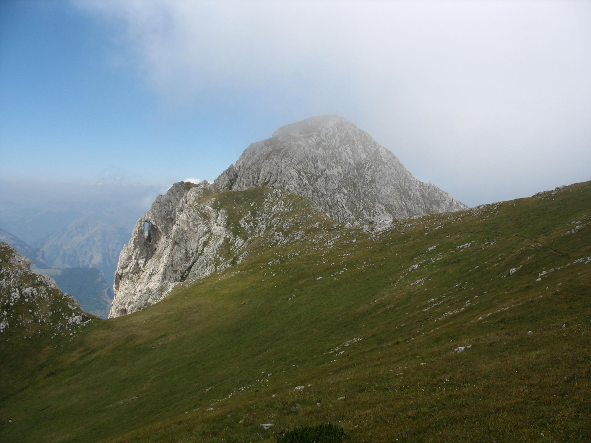 Bosanski Maglić (2386 m) - the highest peak of Bosnia and Herzegovina)